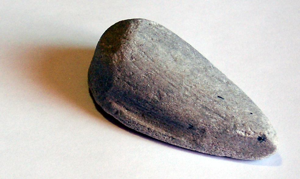 Pumice